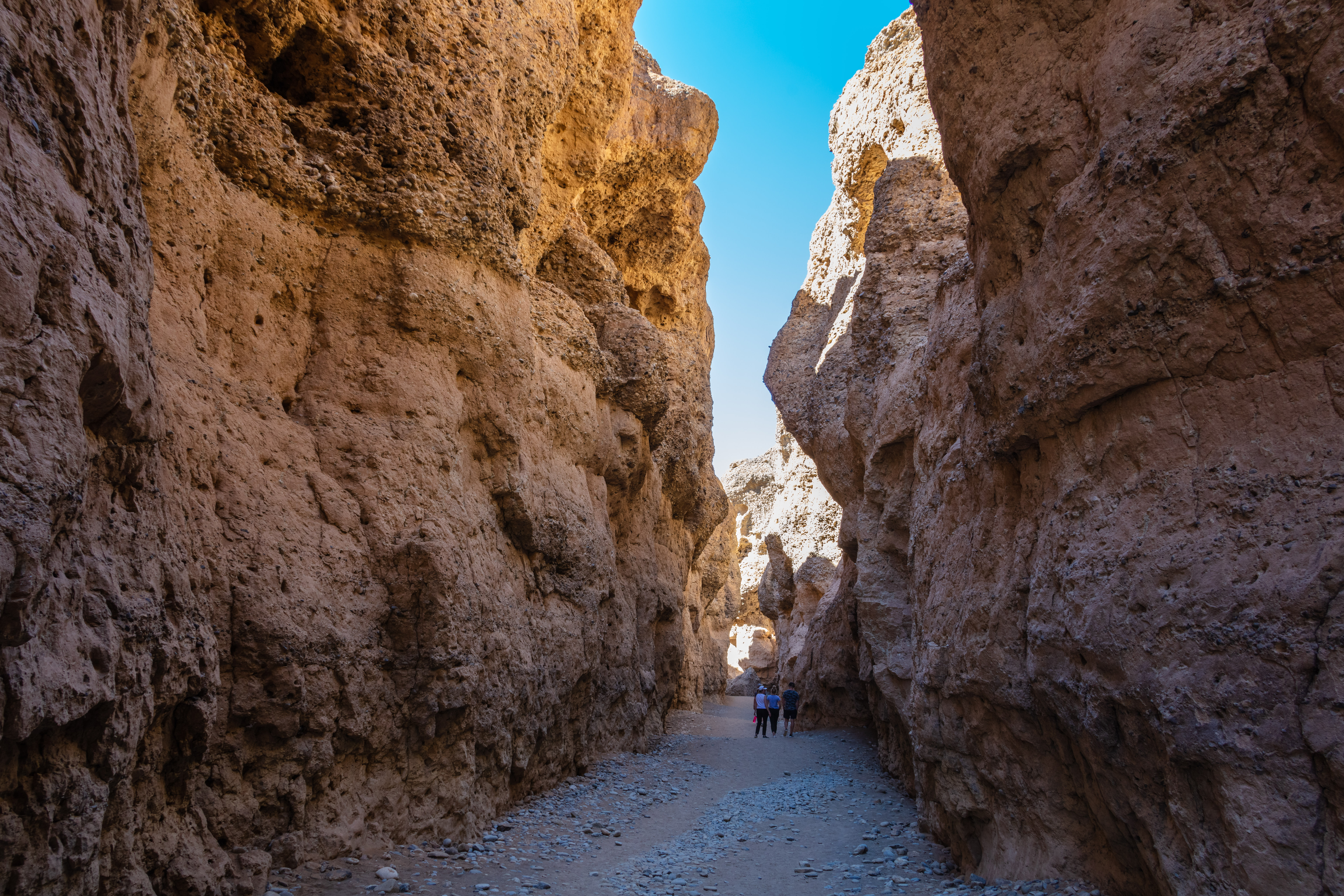 Sesriem Canyon, Sossusvlei, Namibia